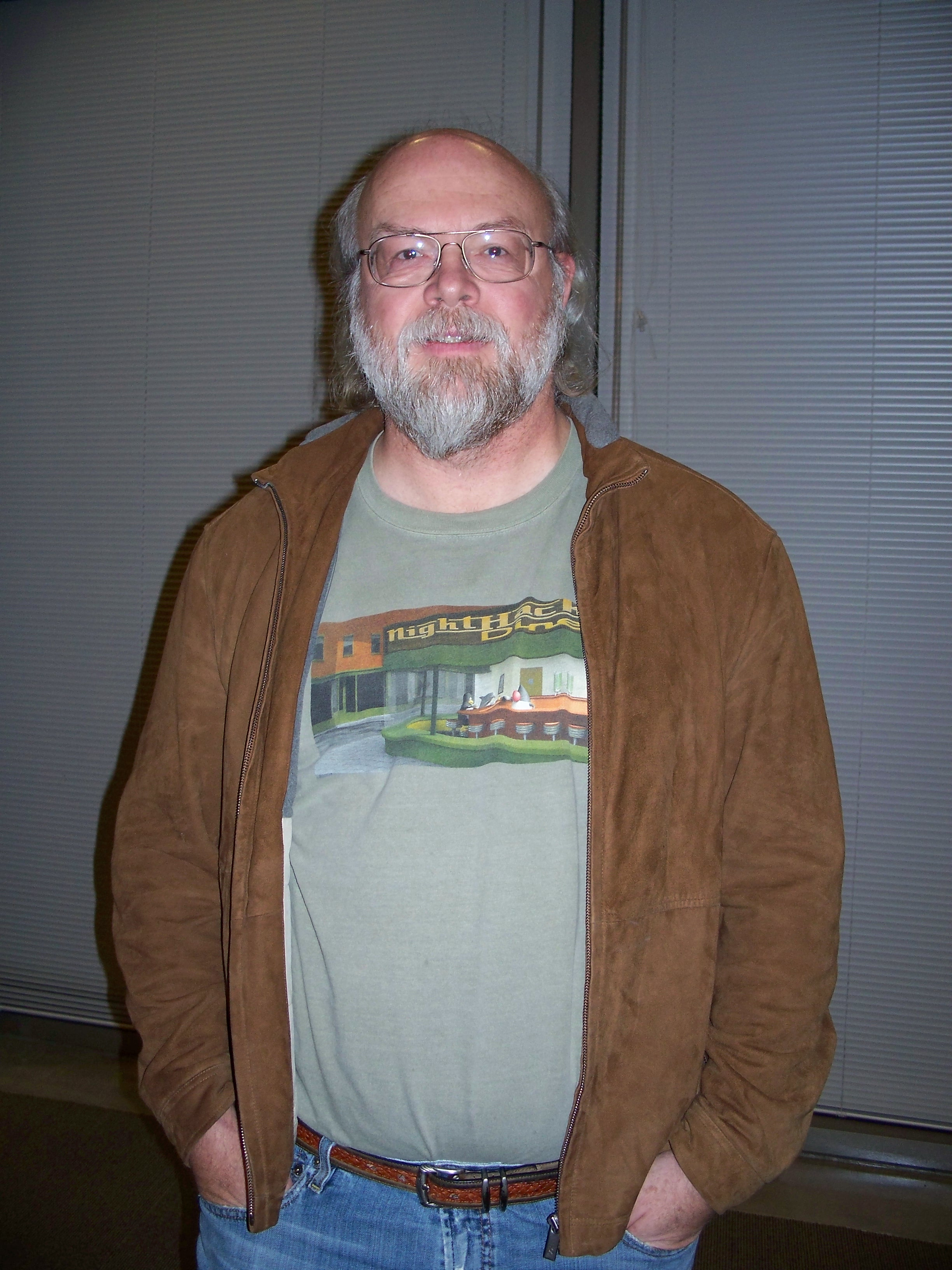 James Gosling on SVLUG meeting